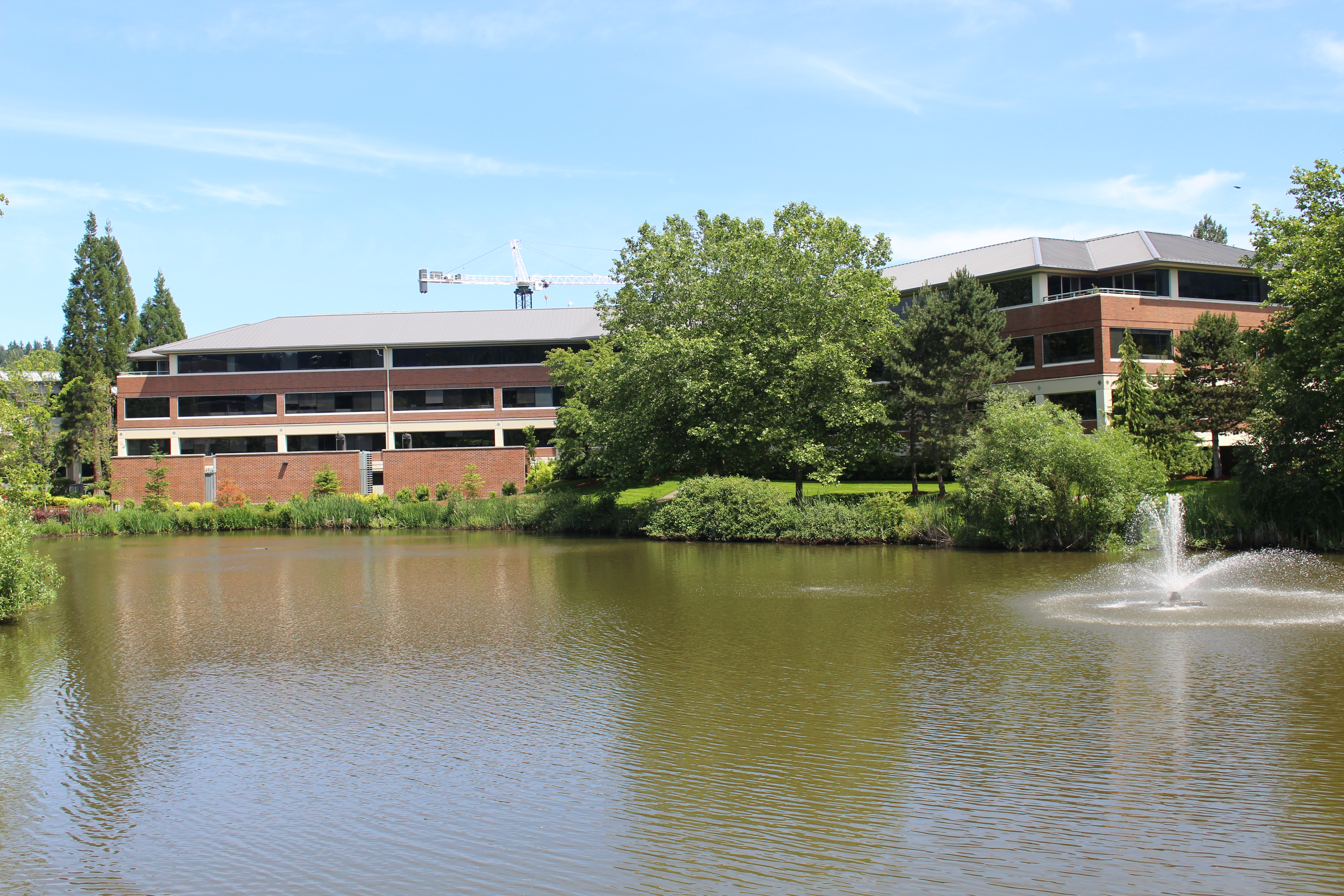 Costco headquarters in Issaquah, Washington. Photographed by user Coolcaesar on May 30, 2016.